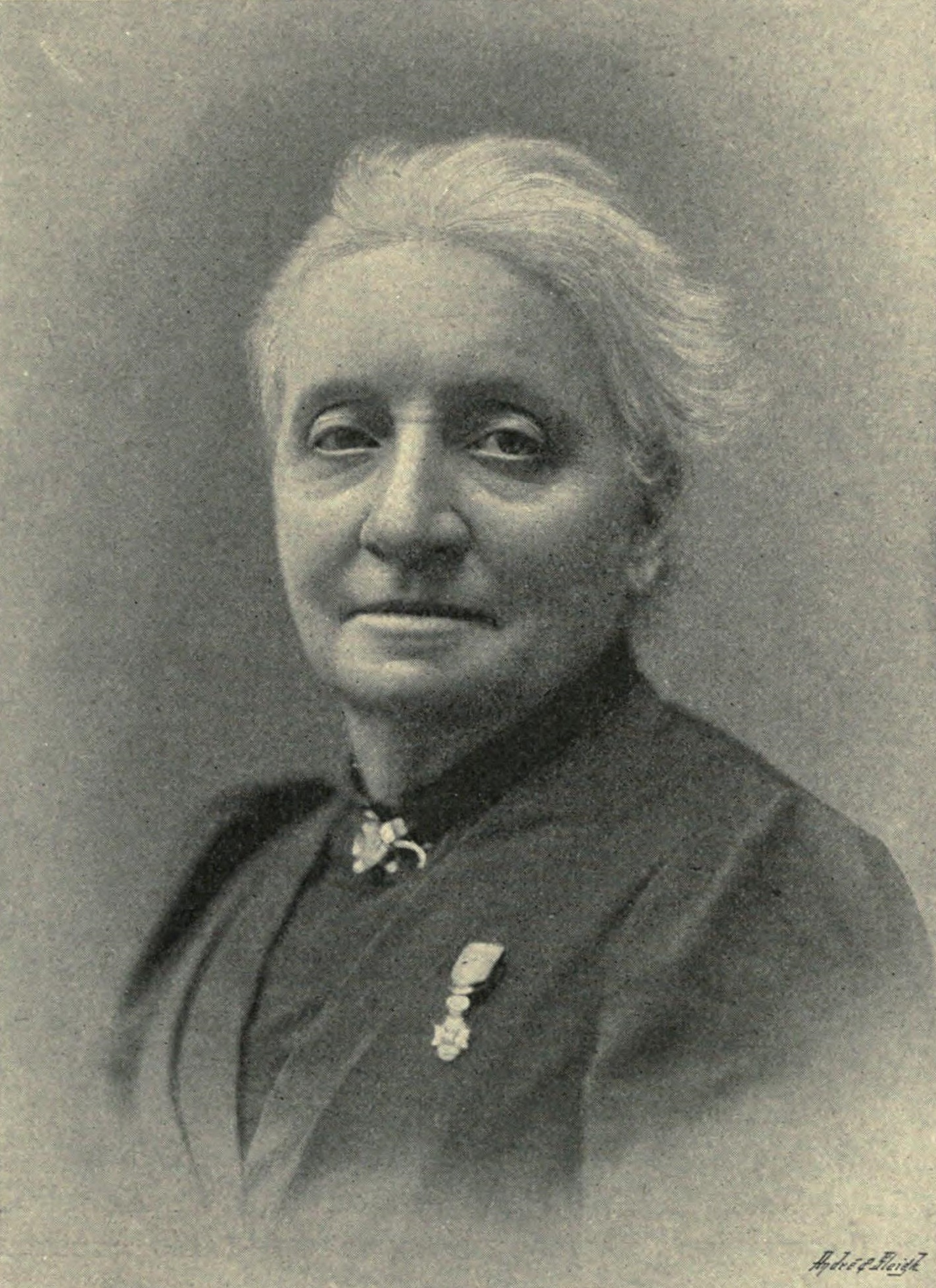 Portrait of Henriëtte Ronner-Knip